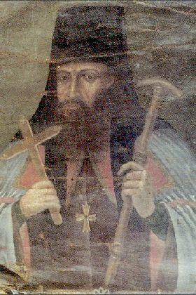 Parsuna. St. John of Tobolsk.